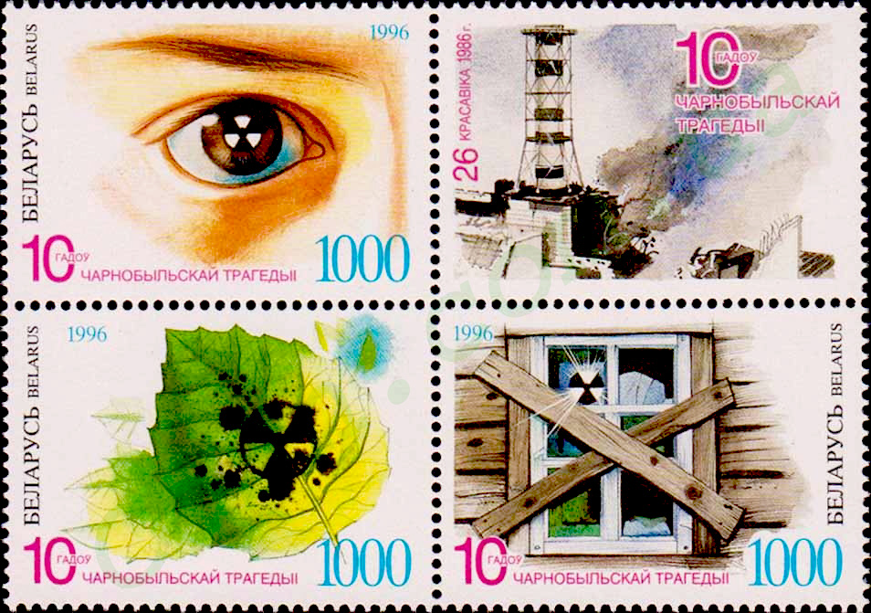 Stamp of Belarus